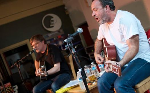 The New Mendicants